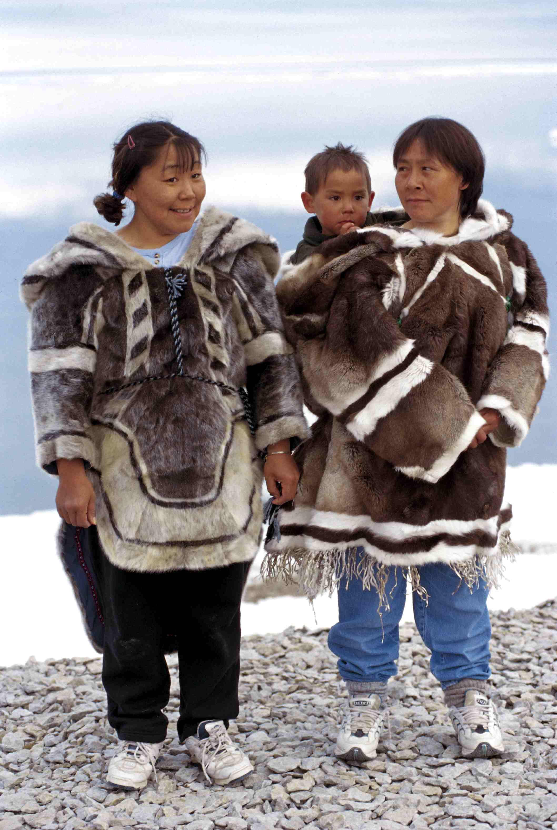 Traditional clothing; left: seal, right: caribou (Iglulik)